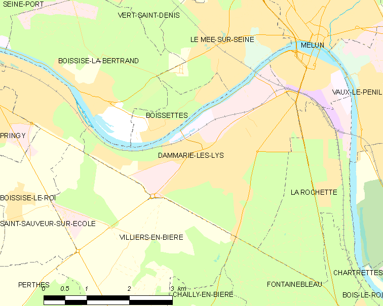 Map of French municipality Dammarie-les-Lys